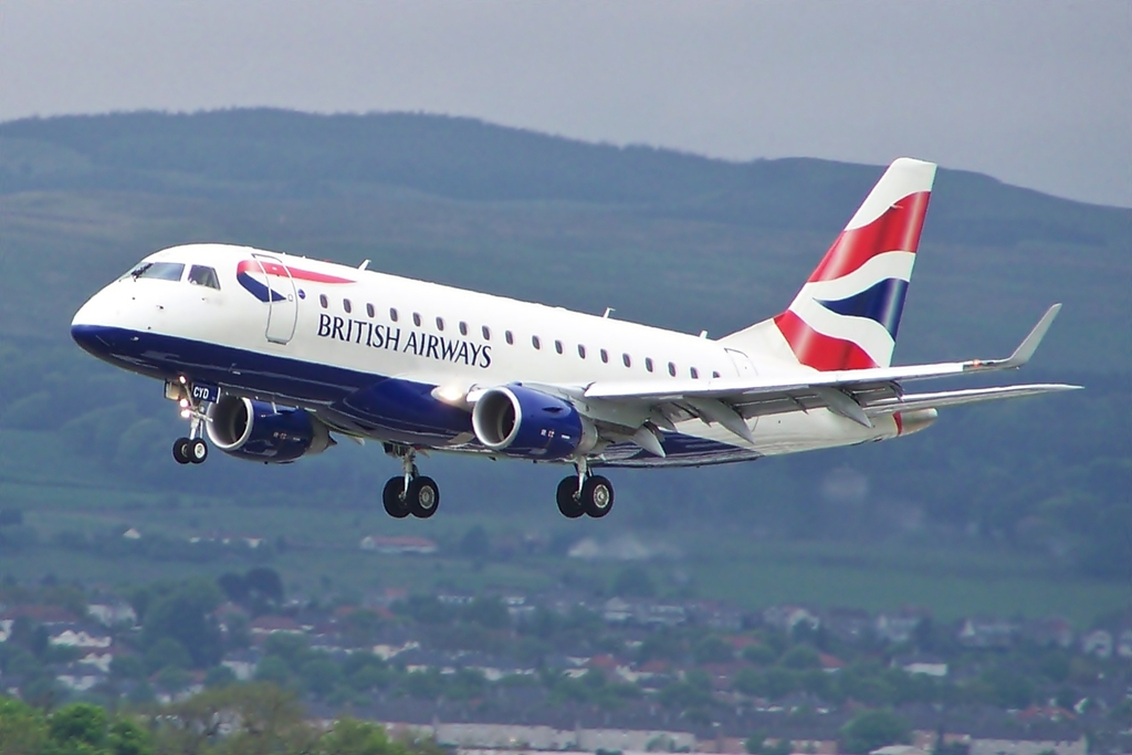 G-LCYD Embraer 170 British Airways landing at Glasgow Airport